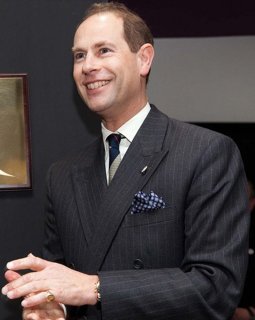 HRH The Earl of Wessex opening the Armadillo centre in Yate